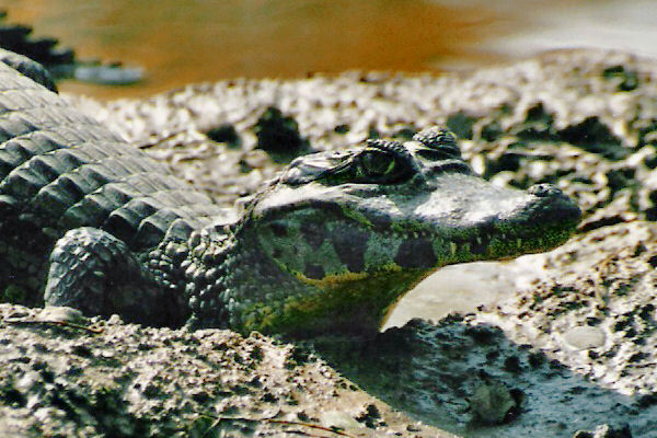 Caiman (Caiman yacare). Photographed in Argentina by Lea Maimone.